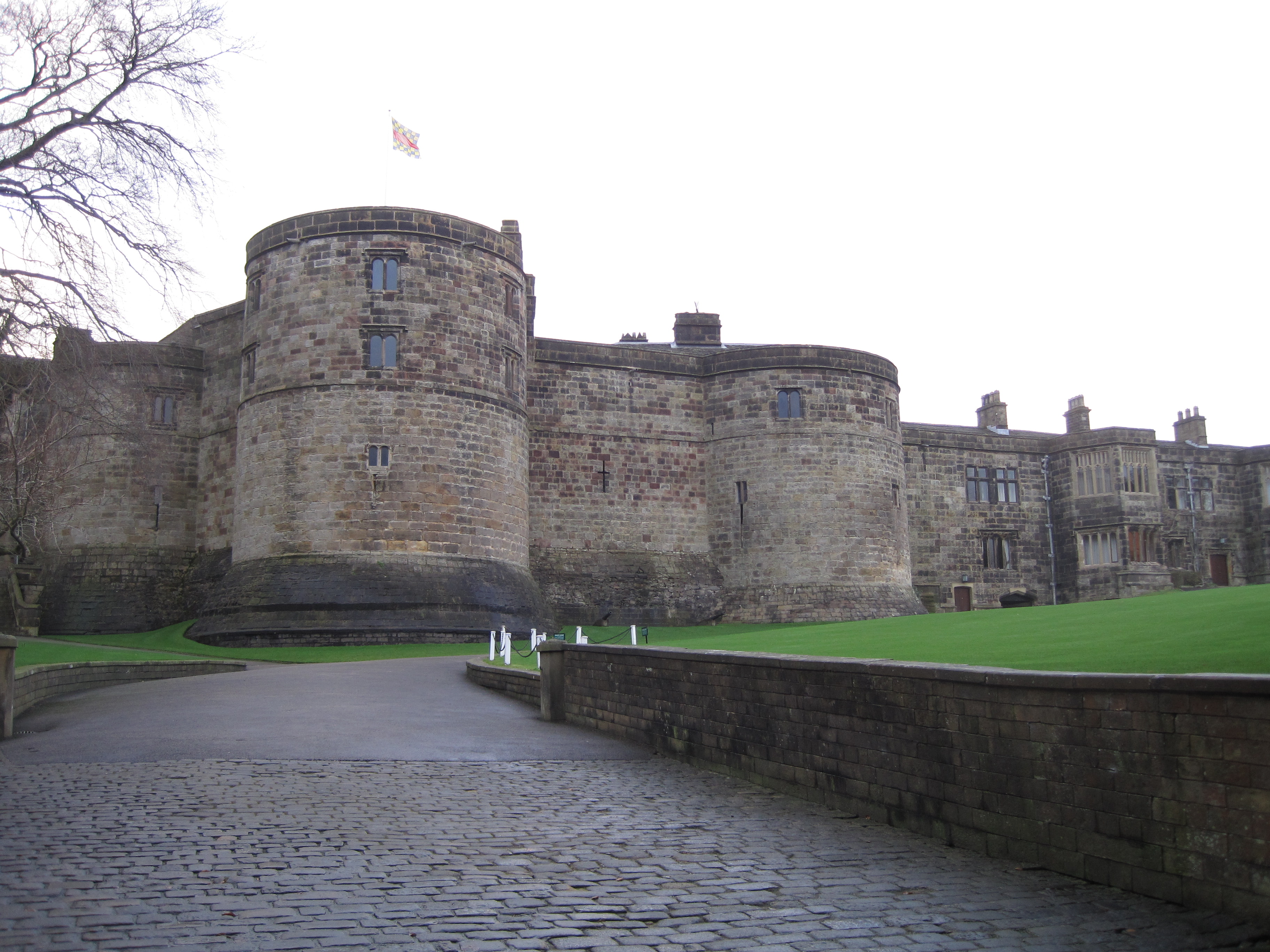 Skipton Castle, North Yorkshire.